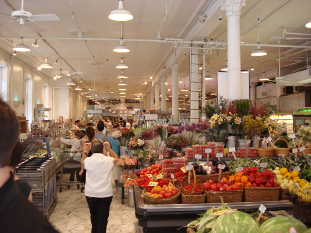 Flowers in Dean & DeLuca (560 Broadway - New York)